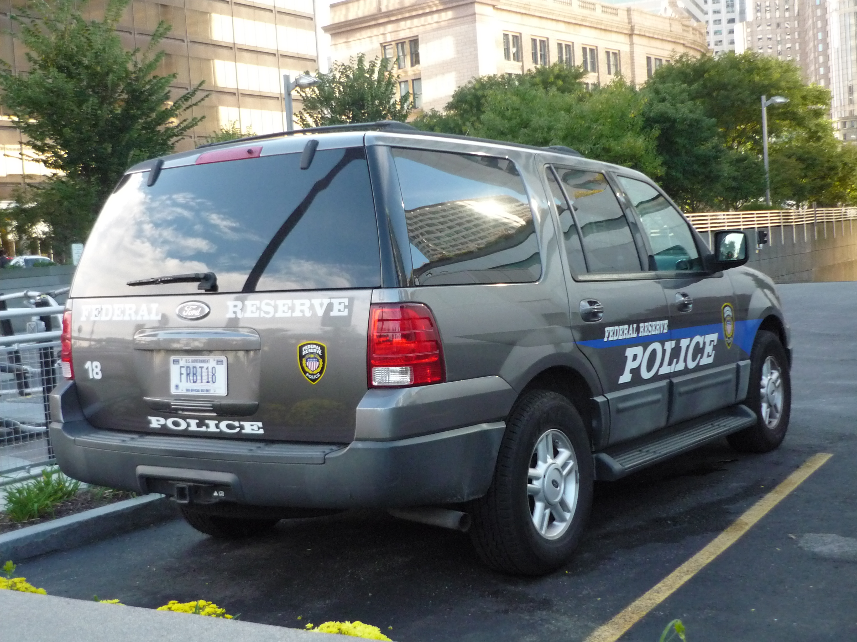 Seen parked at Boston's Federal Reserve Bank building on Atlantic Ave. -- Jason Lawrence